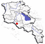 Location map for Artashat, Armenia. Made using Aramgutang's template.